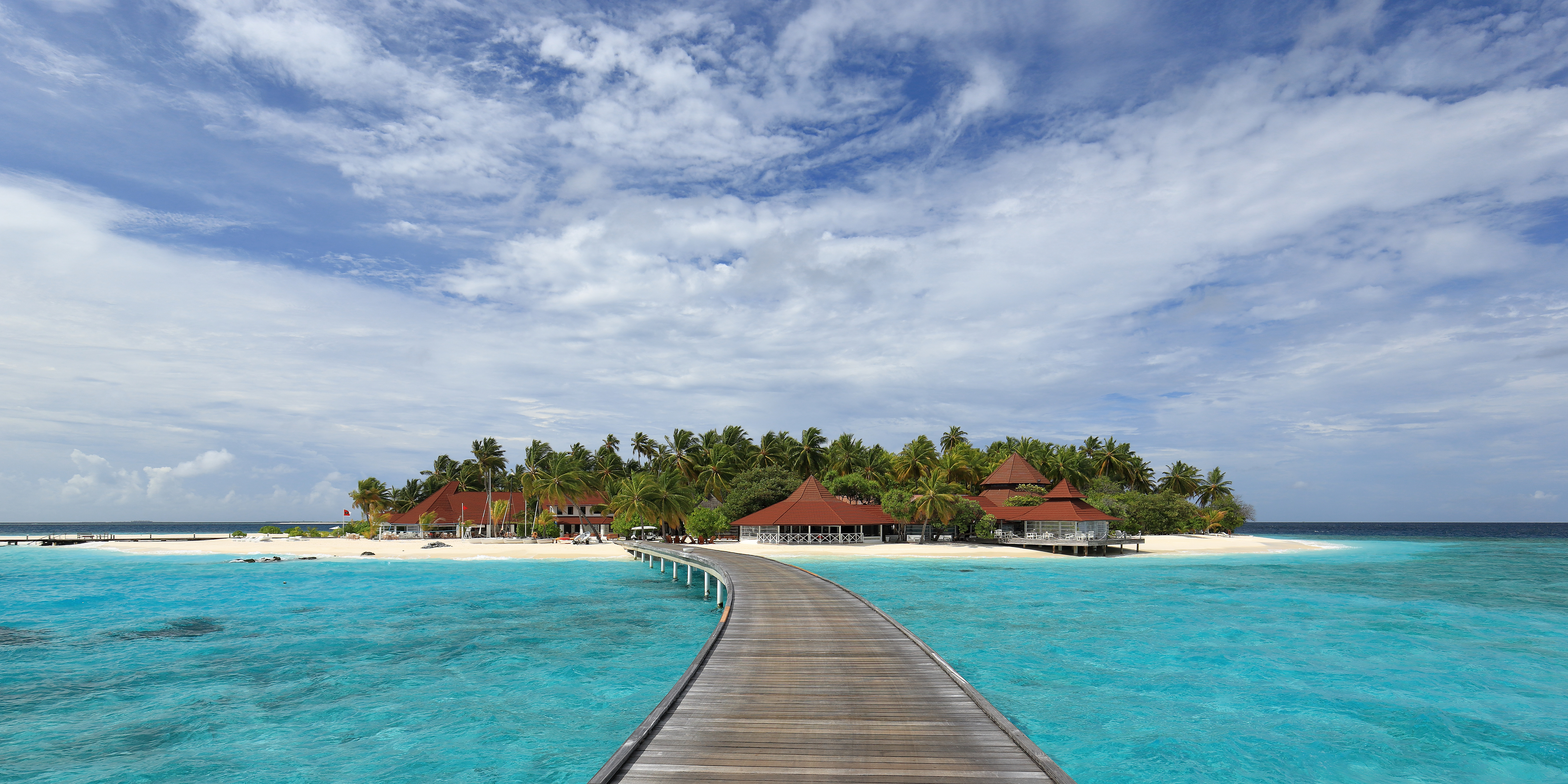 Diamonds Thudufushi Beach & Water Villas, a luxury resort on Thudufushi, Ari Atoll, Maldives.